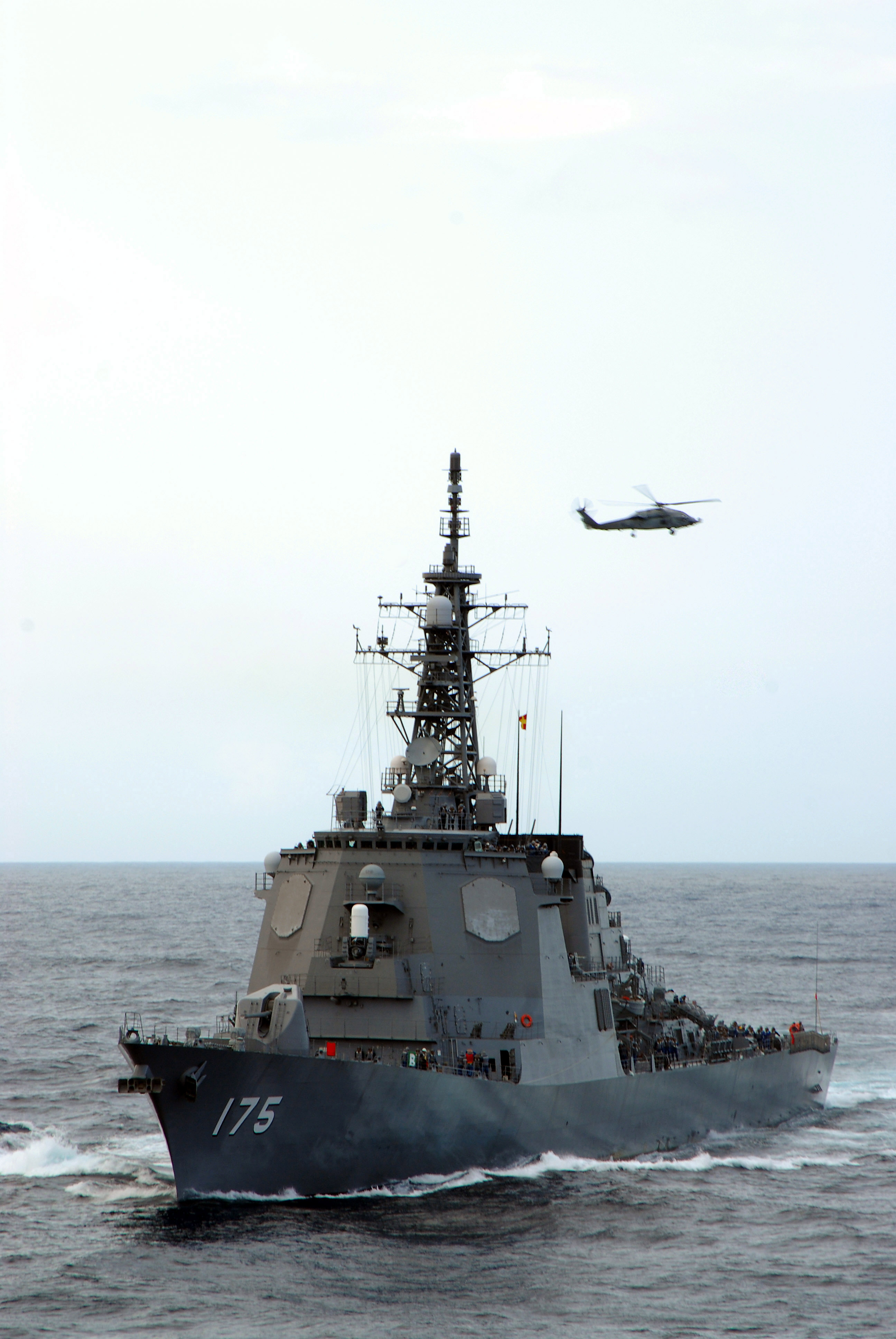 070317-N-3659B-067 PACIFIC OCEAN (March 17, 2007) - Sailors man the rails aboard Japan Maritime Self Defense Force (JMSDF) guided missile destroyer JS Myoko (DDG 175) as they prepare to pull alongside Nimitz-class aircraft carrier USS Ronald Reagan (CVN 76) during a fueling at sea (FAS) exercise. Ronald Reagan Carrier Strike Group and embarked Carrier Air Wing (CVW) 14 are underway in support of operations in the western Pacific. U.S. Navy photo by Mass Communication Specialist Seaman Joseph M. Buliavac (RELEASED)